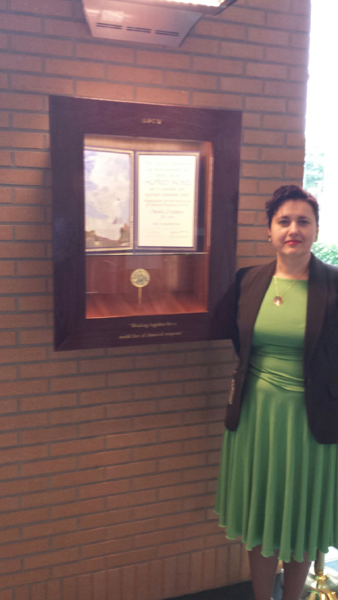 May 2014, H. E. Ambassador Nineta Barbulescu and ViceChair of OPCW Confidentiality Commission in front of the 2013 Nobel Prize awarded to the Organisation for the Prohibition of Chemical Weapons in the Hague (Netherlands)